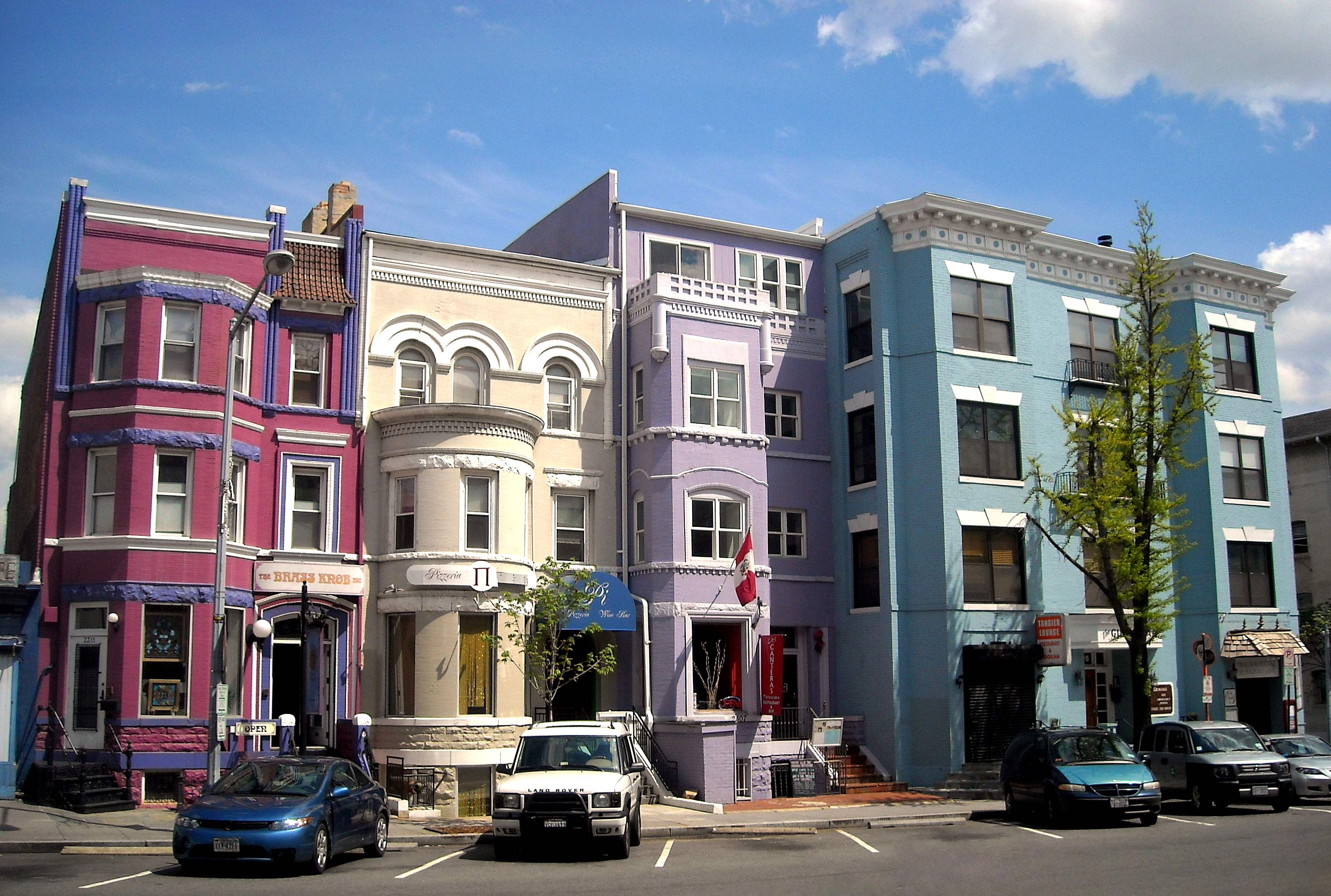 The Gibraltar (far right; designed by Dan B. Miller in 1909; Classical Revival) located at 2305 18th Street, NW in the Adams Morgan neighborhood of Washington, D.C. The remaining buildings (2307 - Queen Anne Style; 2309 - Romanesque Revival; 2311 - Queen Anne) were designed by Joseph C. Johnson in 1897. All four buildings are contributing properties to the Washington Heights Historic District.